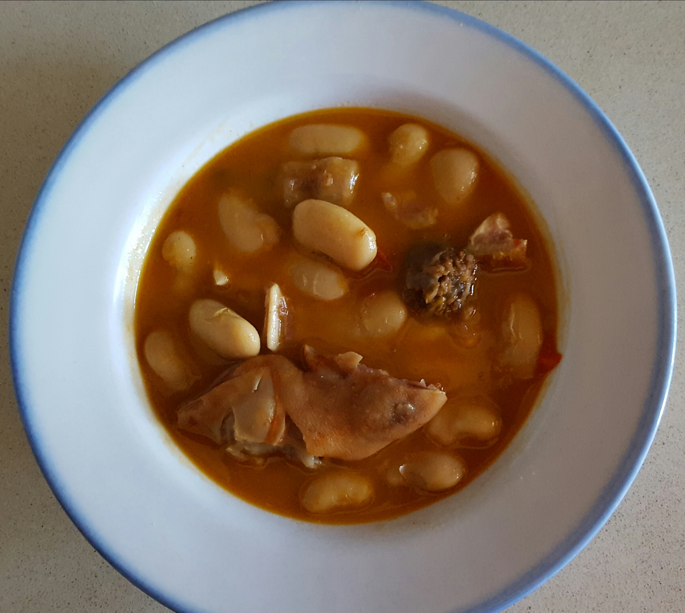 Beans from Barco de Ávila with pork ear, Ávila, Spain